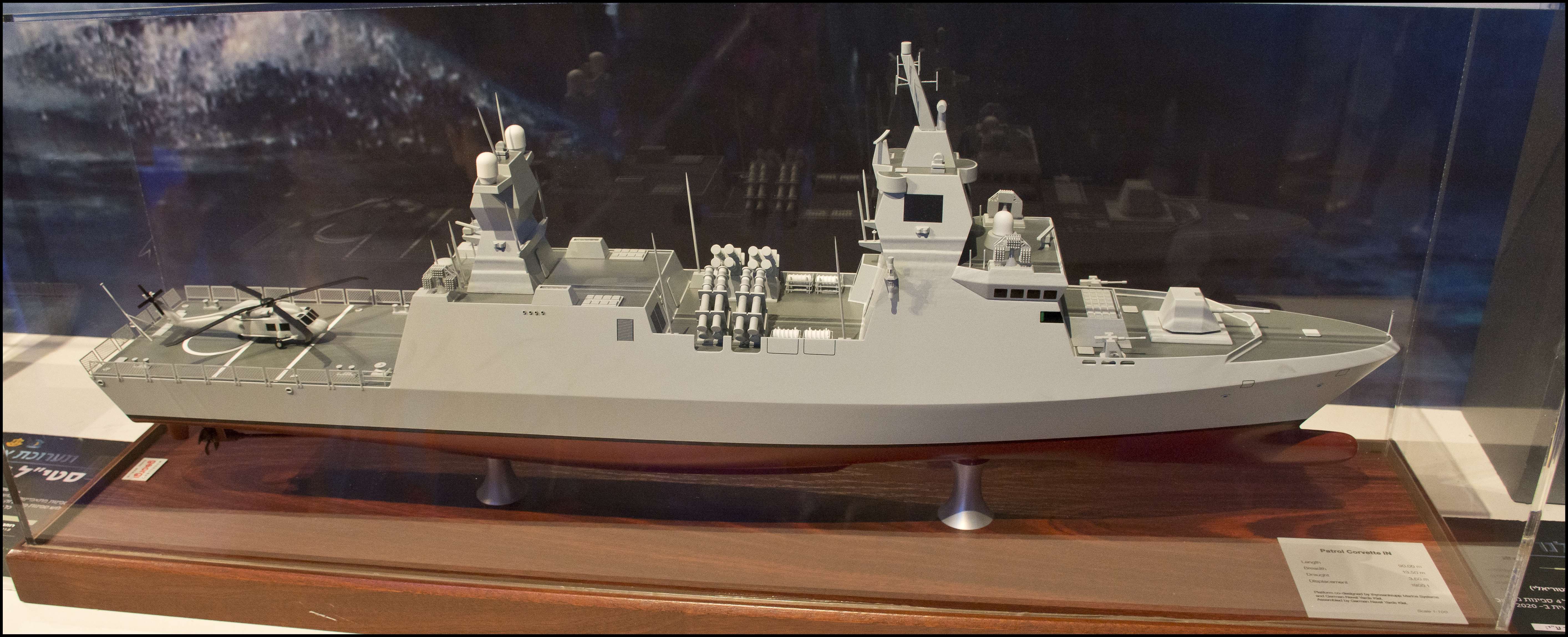 Scale model of Saar 6 class missile corvette, Our IDF 70, Israel